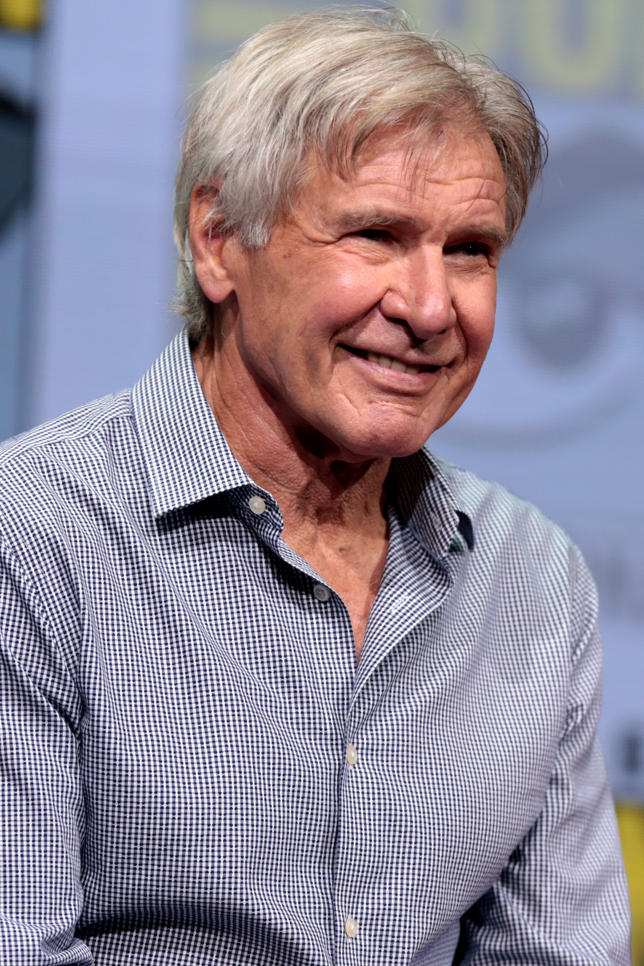 Harrison Ford speaking at the 2017 San Diego Comic Con International, for "Blade Runner 2049", at the San Diego Convention Center in San Diego, California.